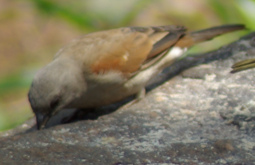 Swahili Sparrow, Passer suahelicus, at a feeder at the Mara Serena Lodge. The time stamp is 10 hours too early. I hope someone gets a sharper one (like this, though someone could still do better).